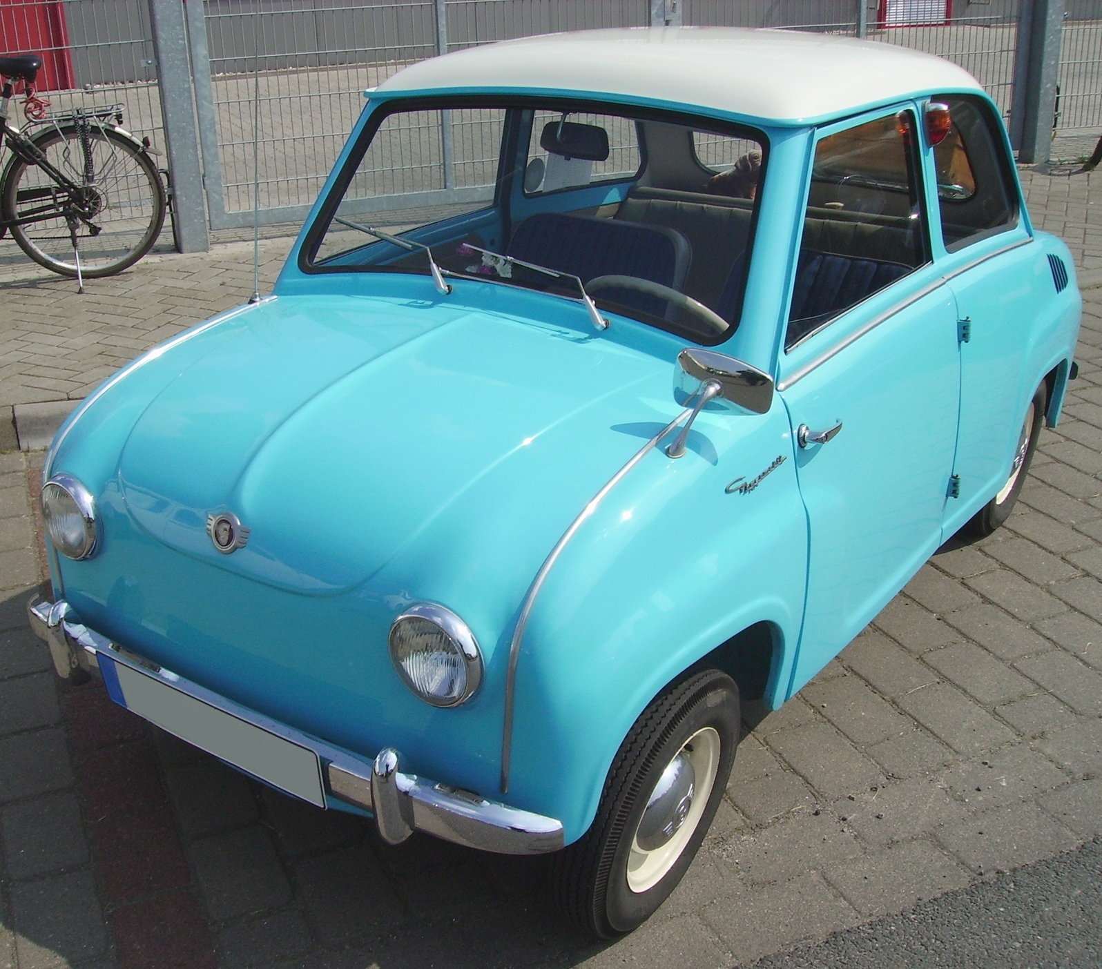 A Goggomobil 250 sedan car